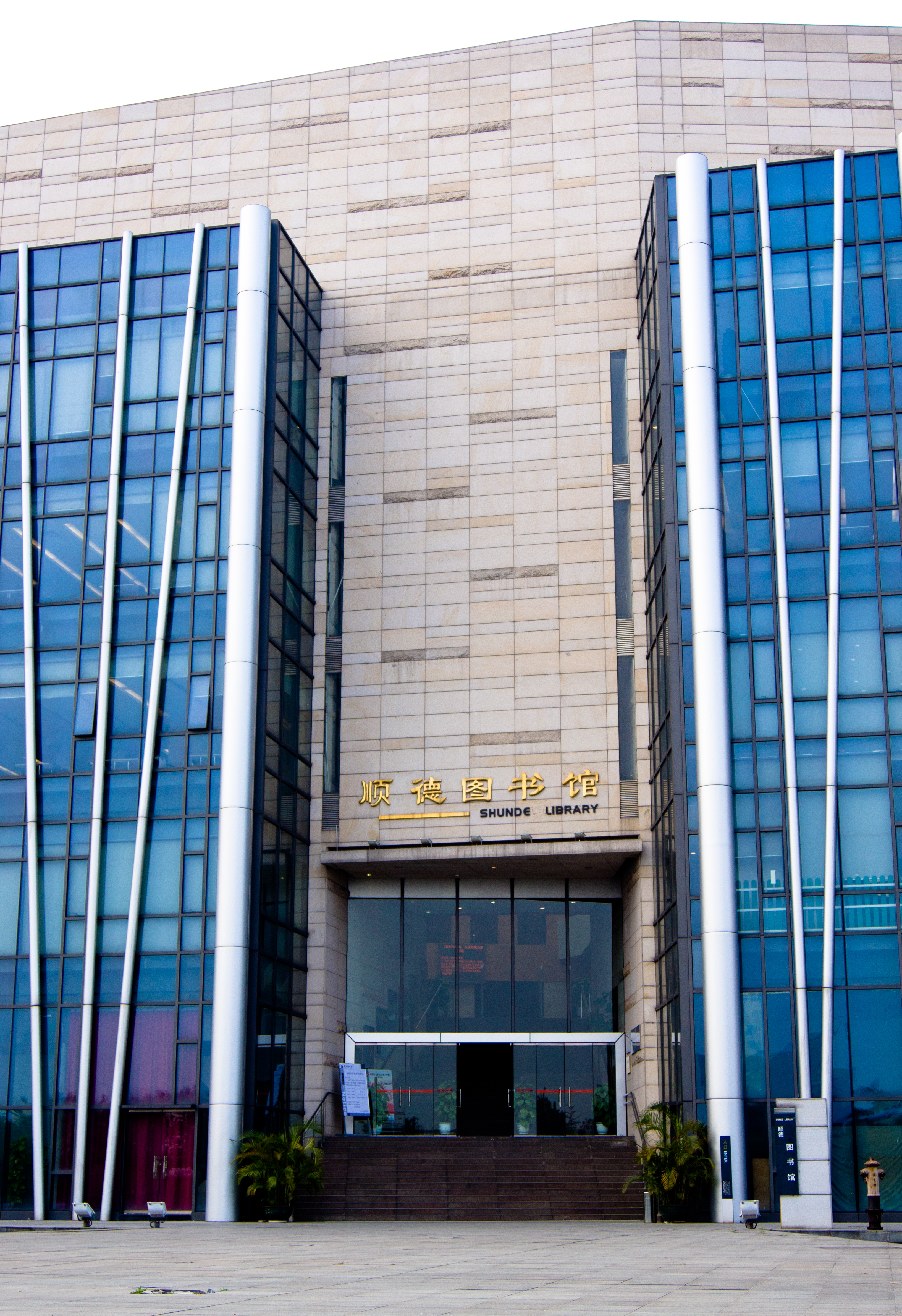 Shunde Library Entrance